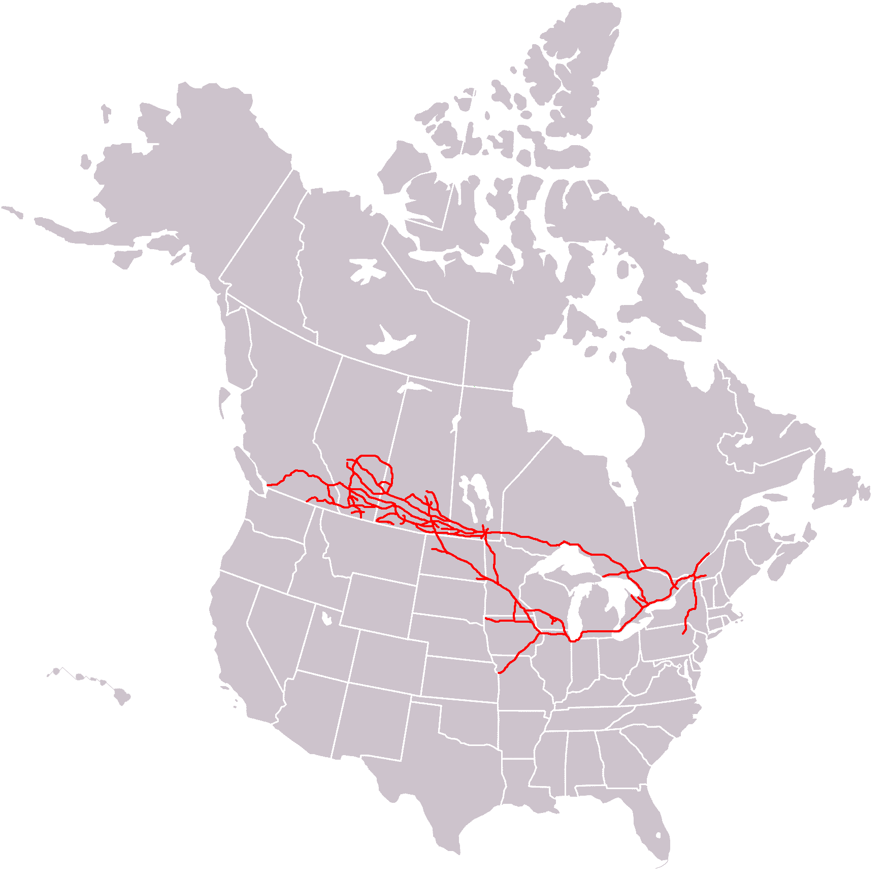 Canadian Pacific System Railmap